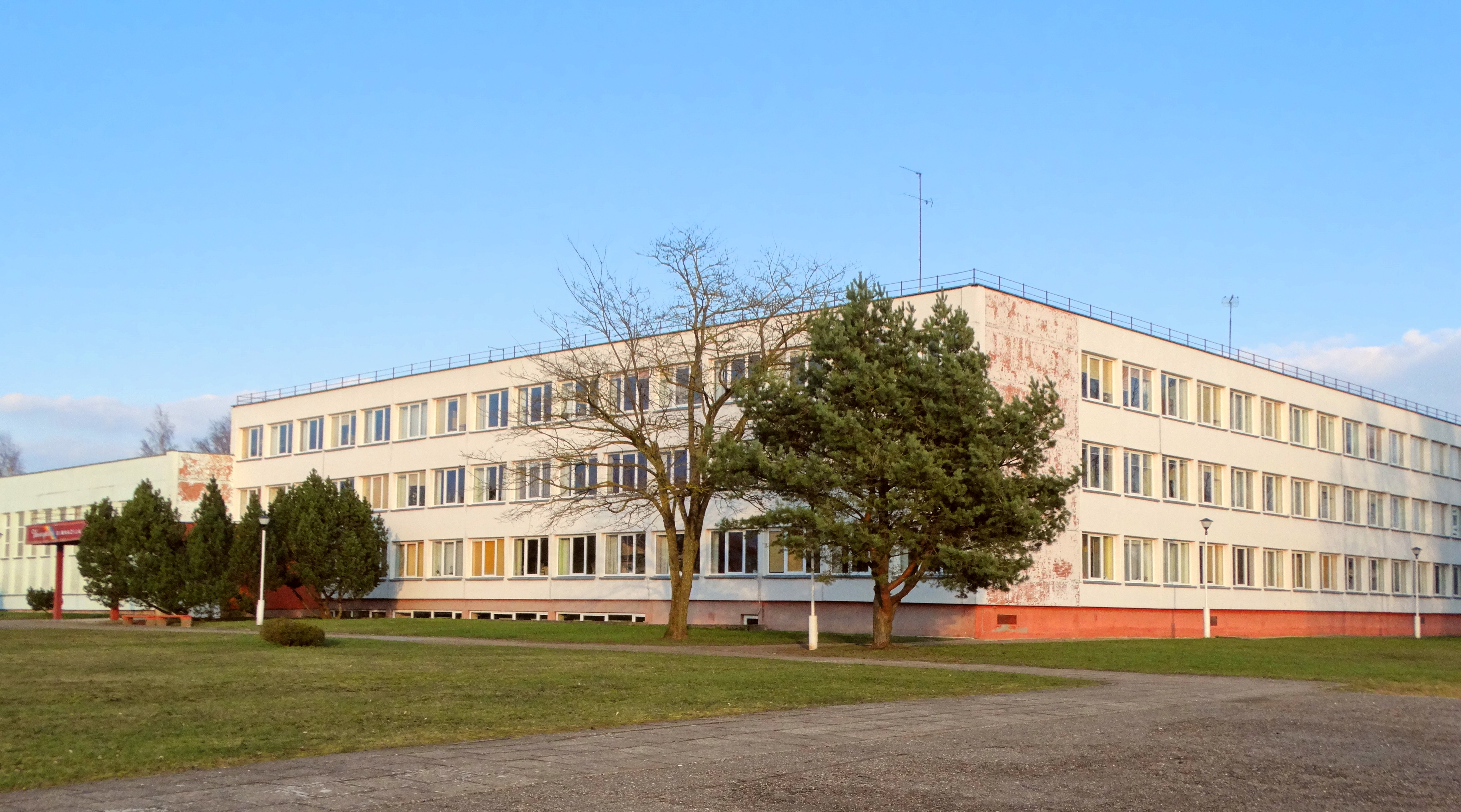 Gymnasium Vaivorykštė, Gargždai, Lithuania